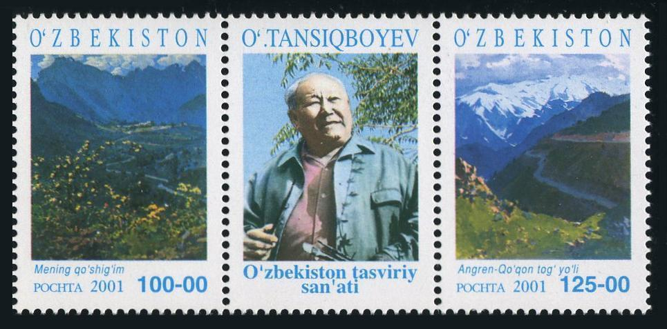 Uzbekistan 319 ab/label, MNH. Artwork of Oral Tansiqboyev,2001.